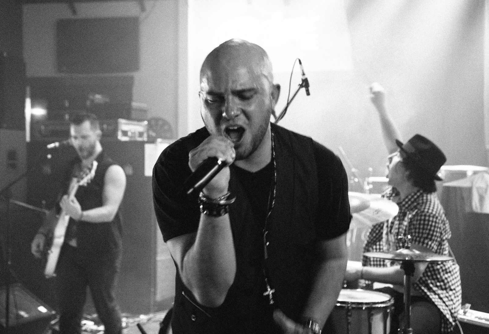 Lead Singer Zachary Charles - Mutual Live